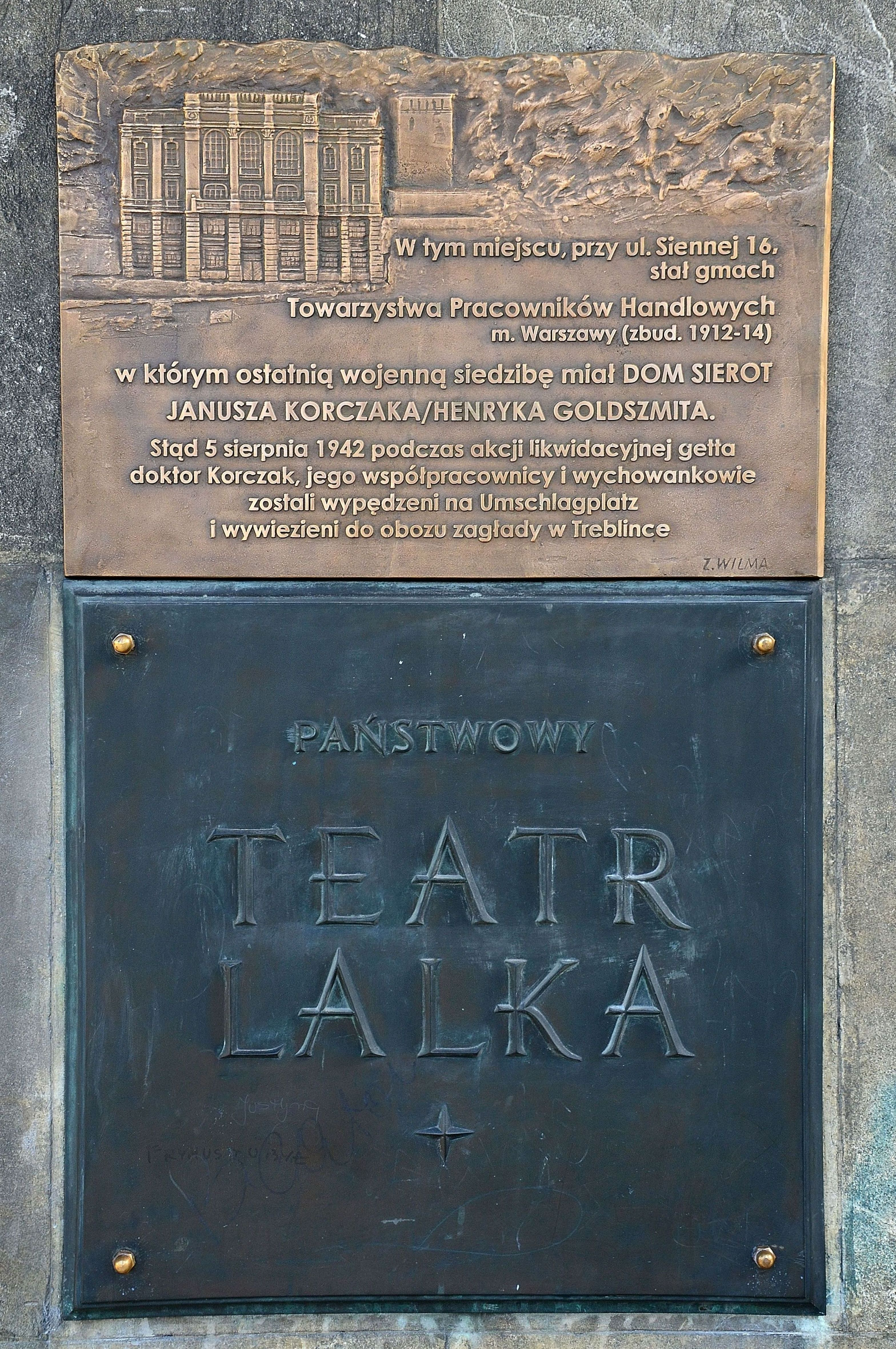 Plaque near the entrance to Lalka Theatre unveiled on August 5th, 2012, commemorating the last seat of Janusz Korczak orphanage in the Warsaw Ghetto